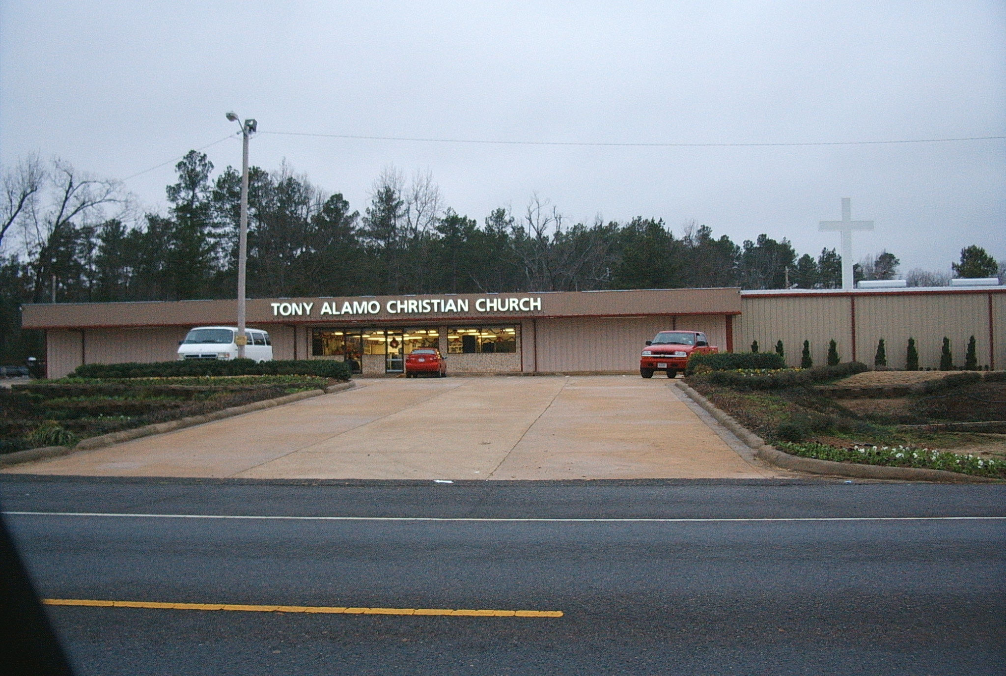 Tony Alamo Christian Church, headquarters of Tony Alamo Christian Ministries, formerly an independent retail establishment known as Big Stop Grocery, bisected by the north city limit of Fouke, Arkansas, between U.S. Route 71 (foreground) and the compound behind the church building, wherein reside Tony Alamo and his followers. Idling in the foreground is a red Chevrolet pickup truck, operated by one of several armed employees of R.G. & Associates Security (an independent contractor of Alamo Ministries since September 2006). Another vehicle, a black sport utility vehicle situated off to the left side of this photograph, pursued the shitless photographer northbound on US 71 for approximately nine miles.